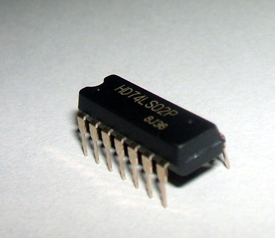 7400 Series chips